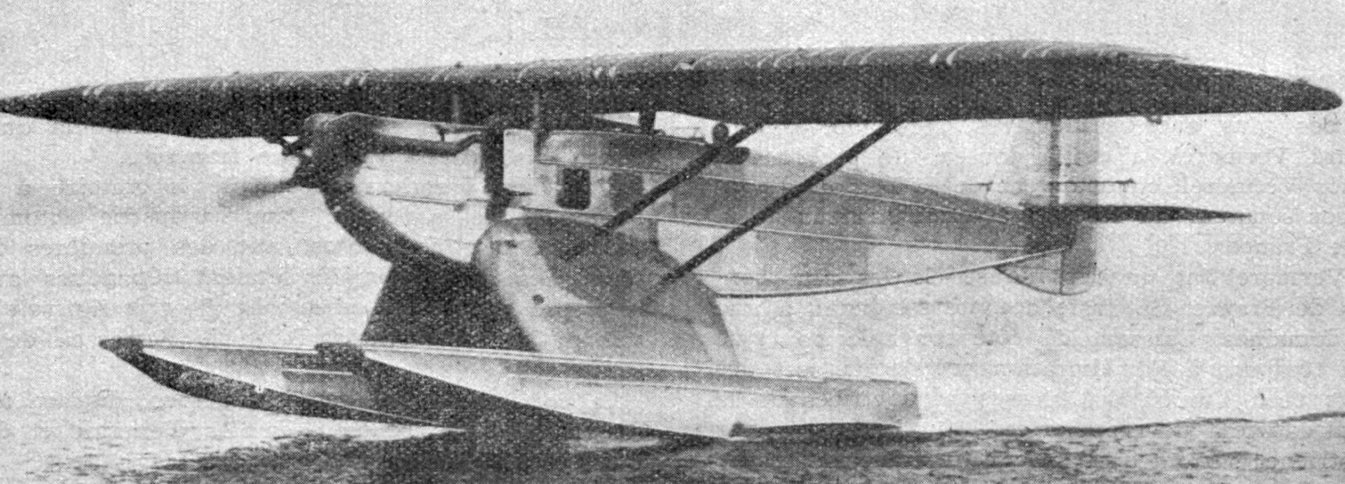 Dornier Do D photo from L'Aérophile December,1927